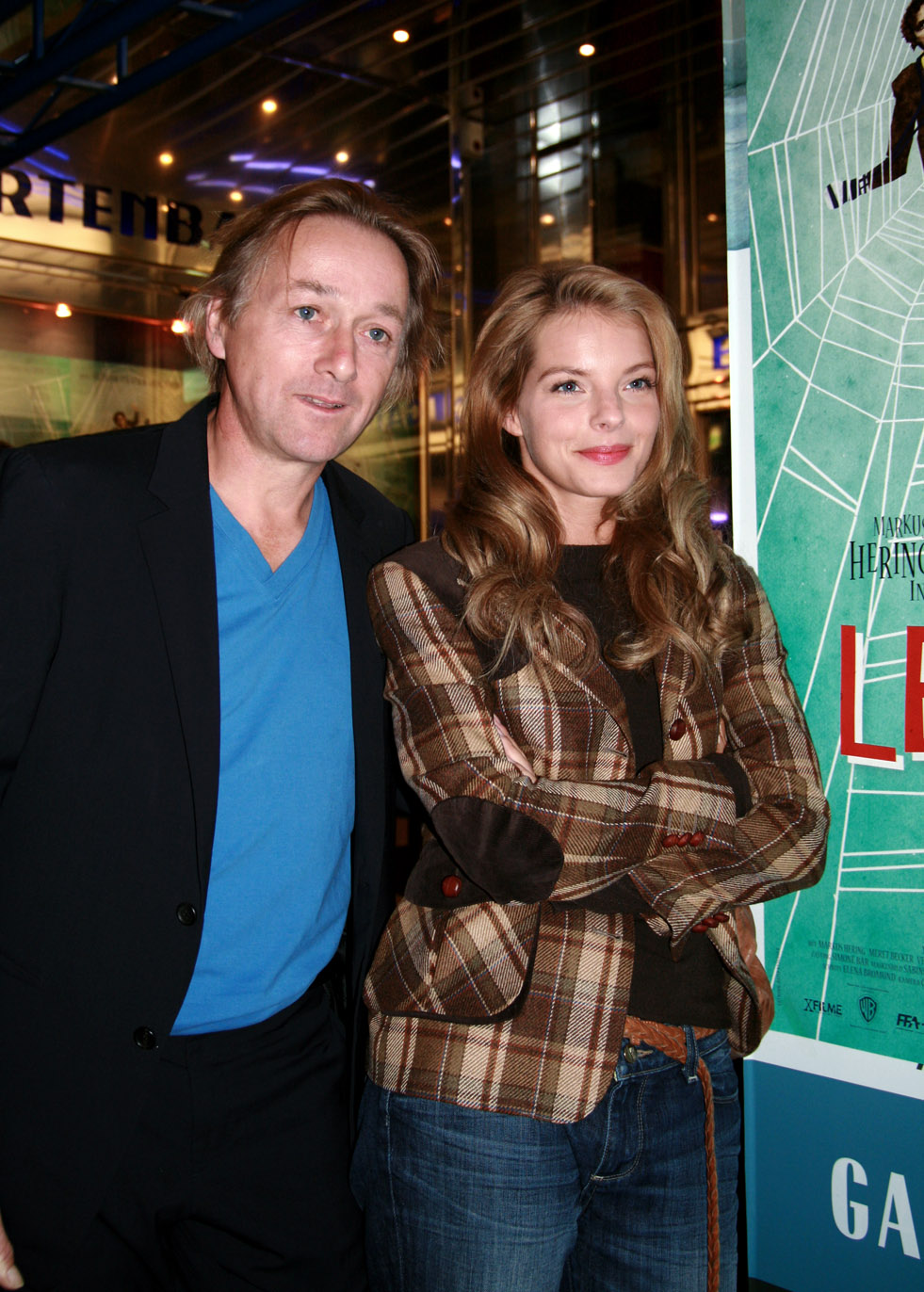 Yvonne Catterfeld and Markus Hering at the Austrian premiere of the movie Das Leben ist zu lang (Life is to long) at the Gartenbaukino in Vienna.